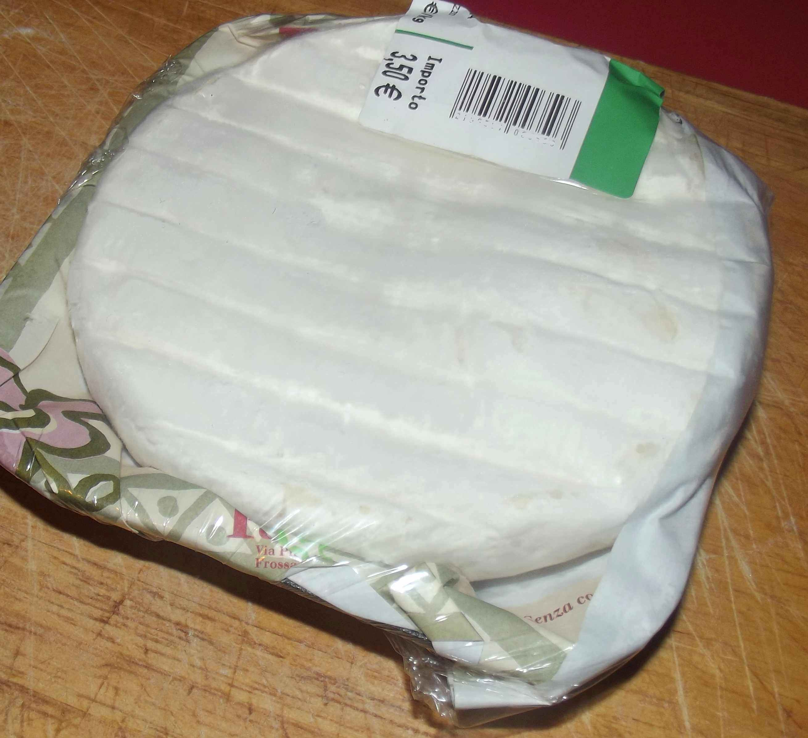 Paglierina (traditional cheese of Piedmont) packed for supermarket selling